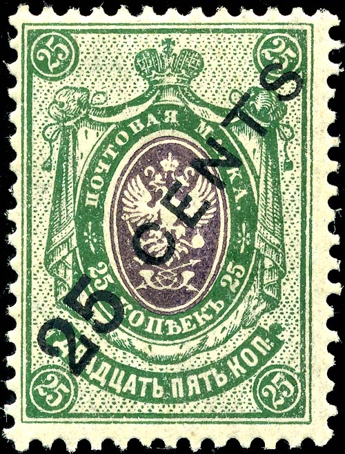 Russian post offices in China 25c overprint stamp of 1917